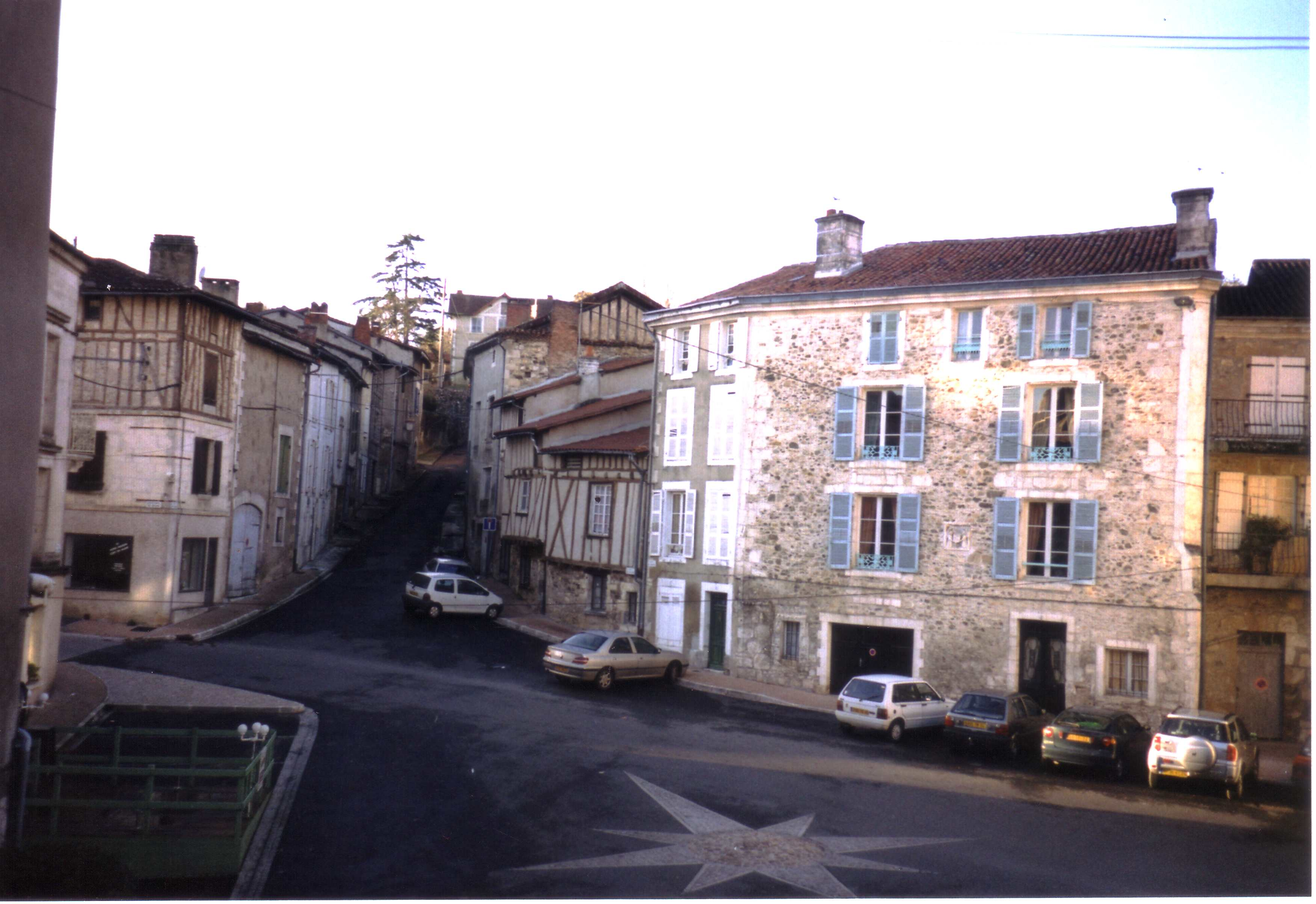 View of a part of the town (ville basse) of Nontron, Dordogne, France